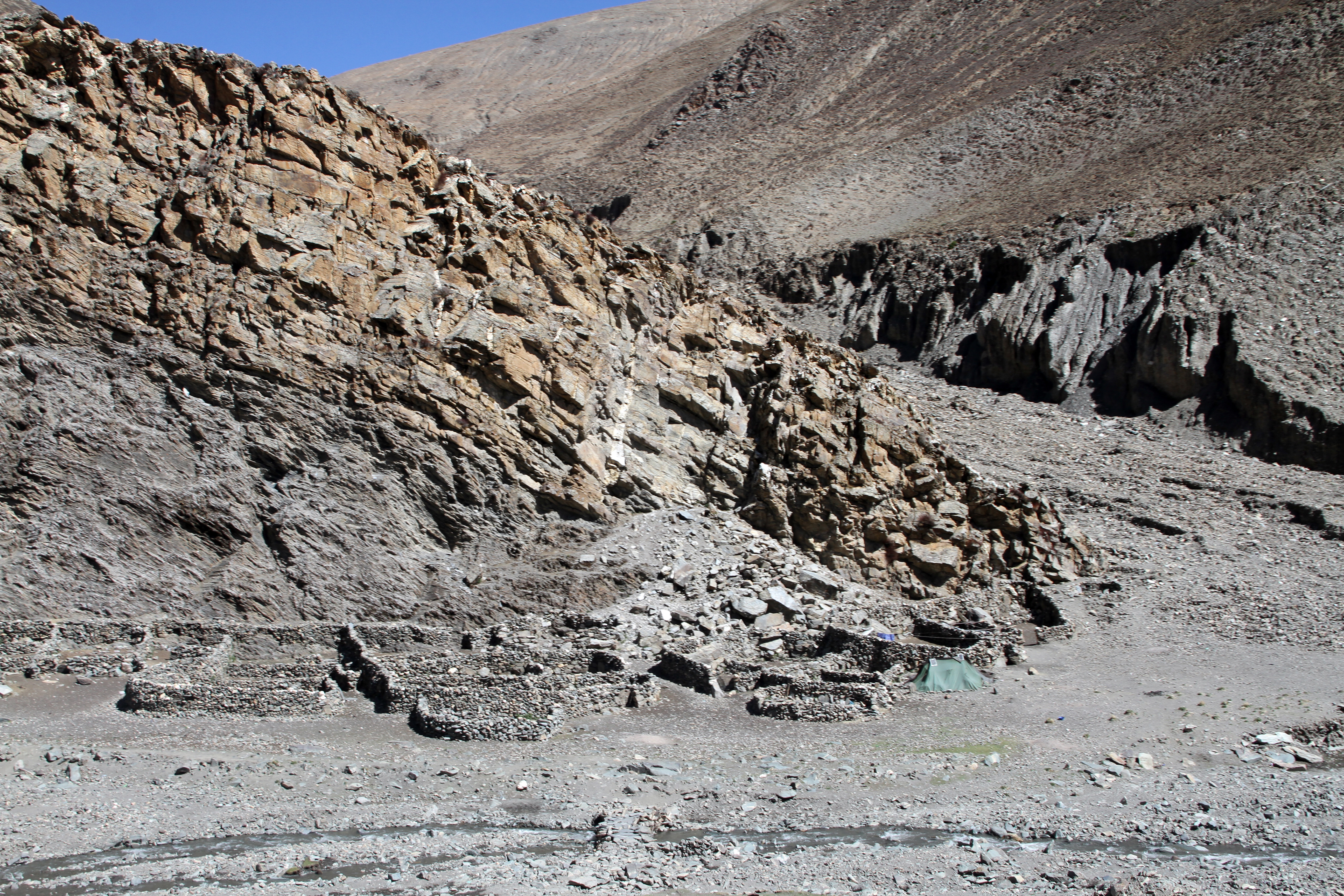 Agriculture in Xigazê prefecture in Tibet